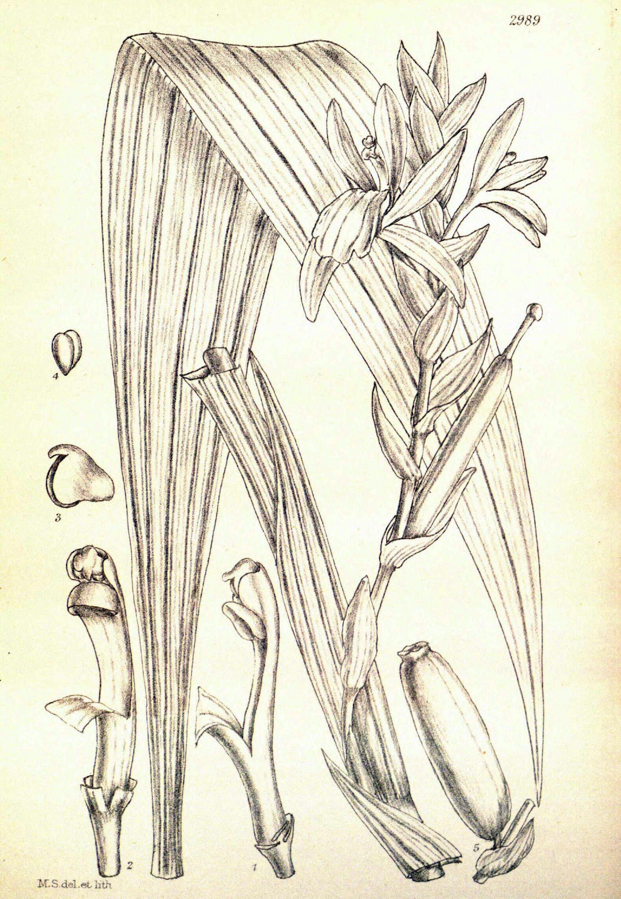 Illustration of Rolfea elata (= Palmorchis pubescentis), Orchidaceae, Epidendroideae, Neottieae